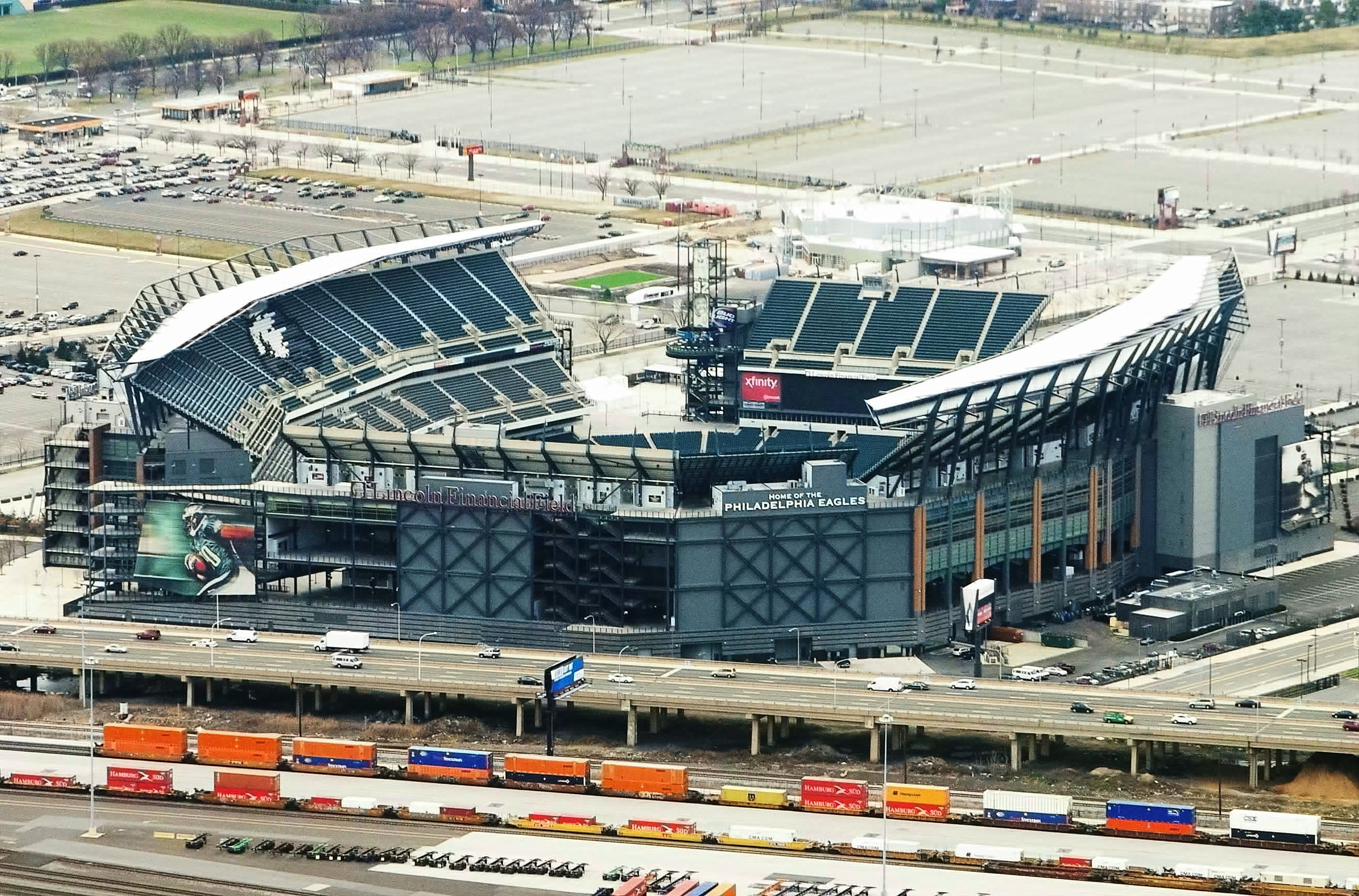 Lincoln Financial Field (Aerial view)